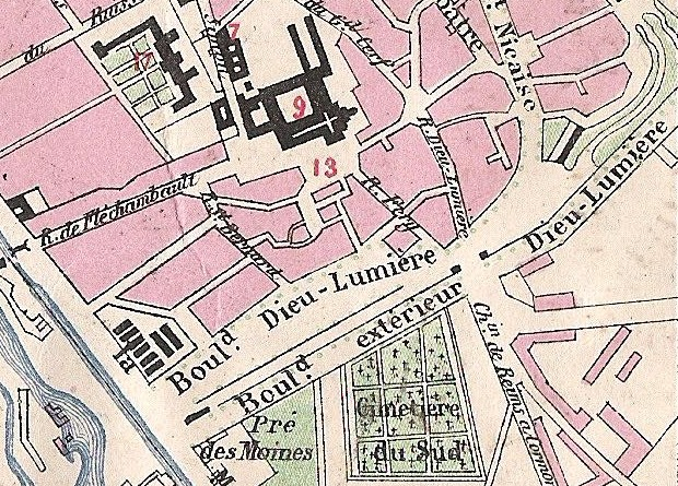 Reims (France - department of Marne) - Map of the City of Reims in 1880